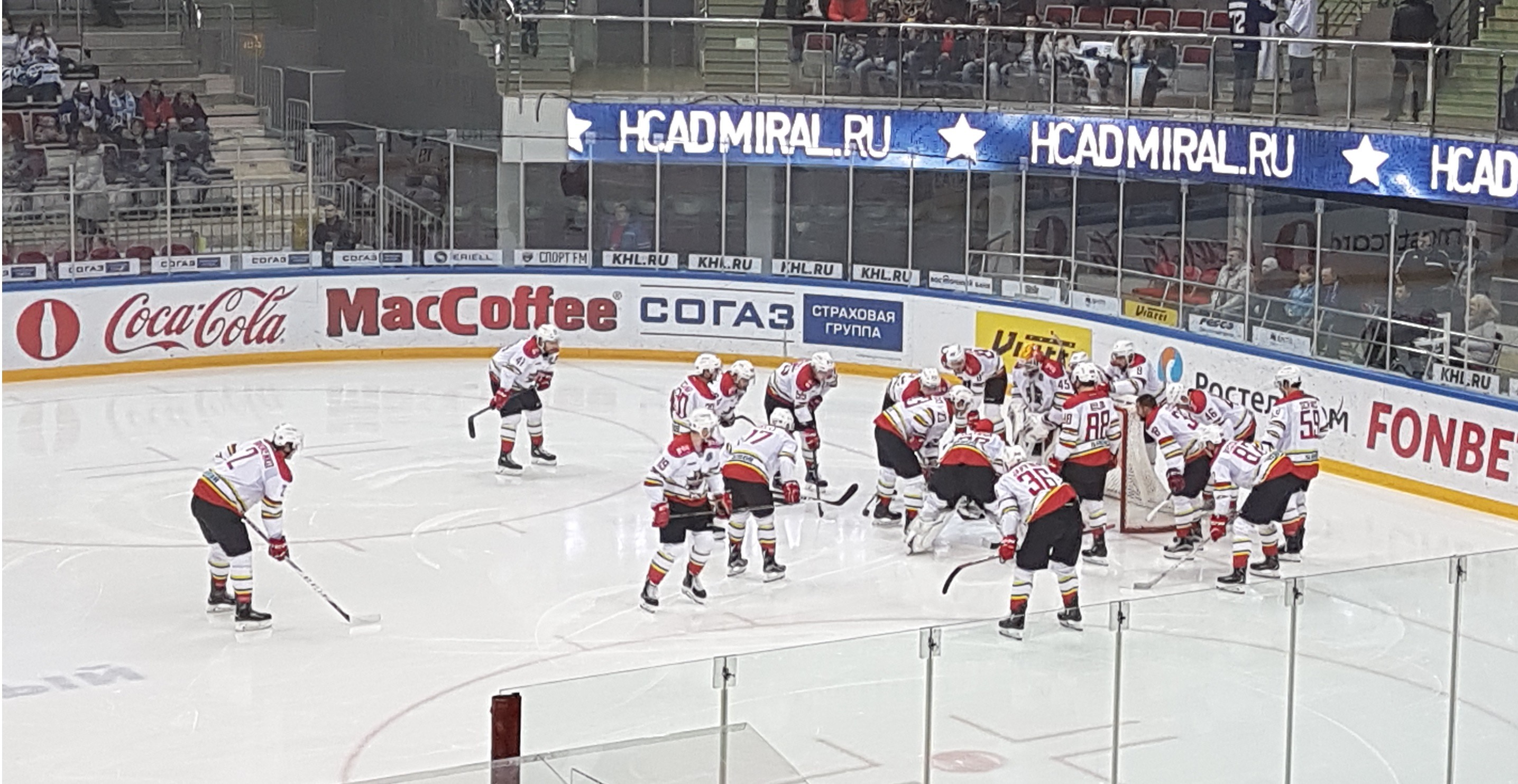 Kunlun Red Star prior to a game on December 29, 2017